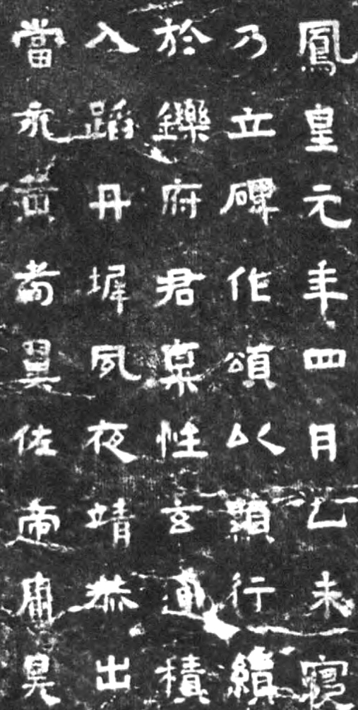 Inscription for Gu Lang "谷朗碑".